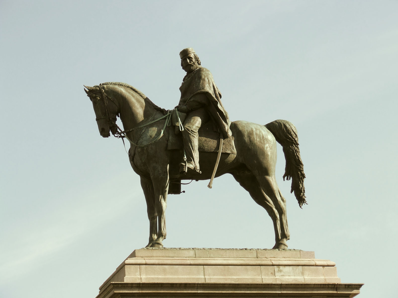 Monument to Giuseppe Garibaldi, in Rome. Made by Emanuele Gallori in 1895.